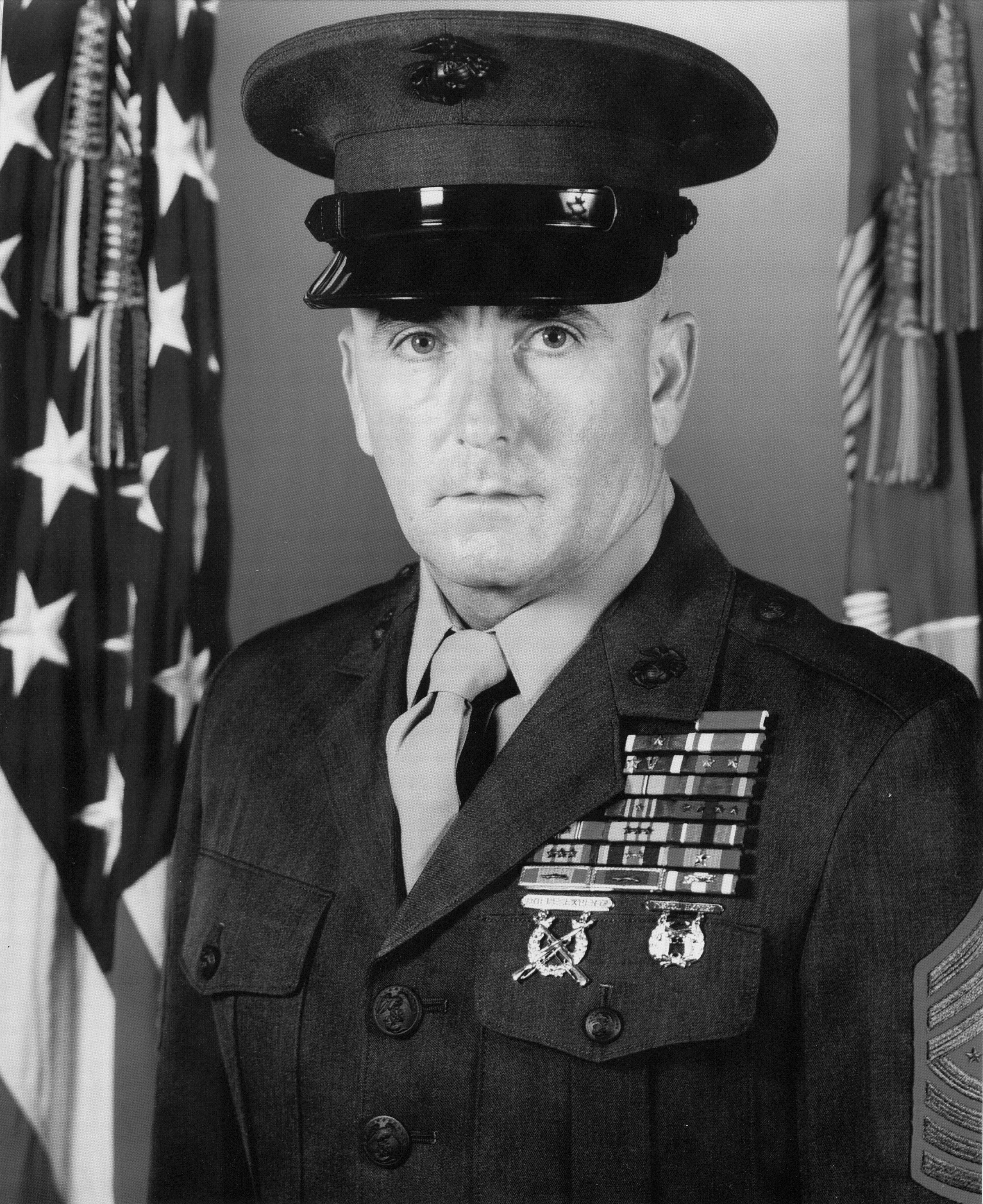 Sergeant Major Lewis G. Lee, USMC, the 13th Sergeant Major of the Marine Corps.